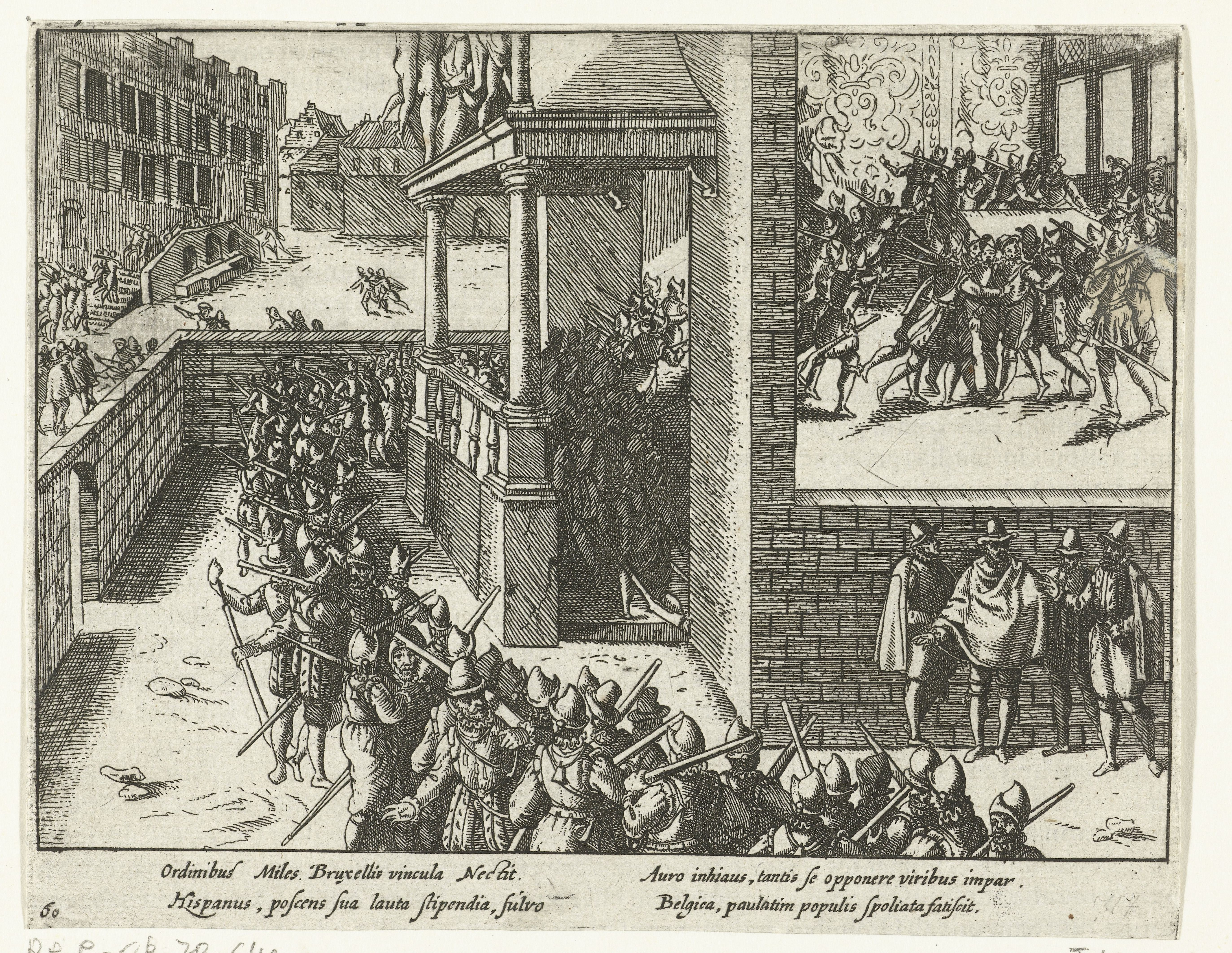 Council of State arrested on 4 September 1576 in Brussels